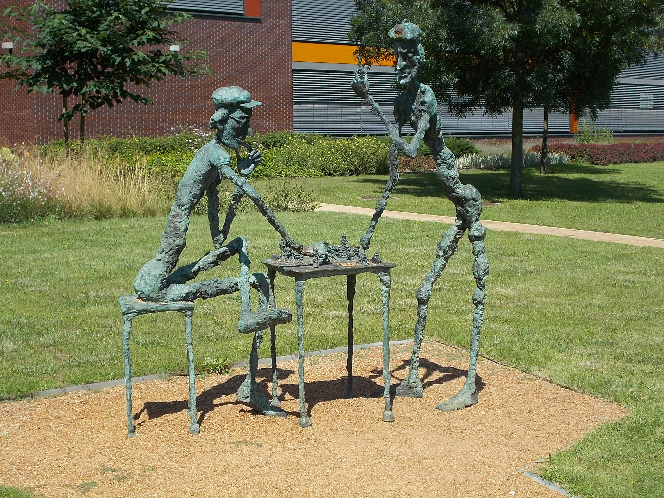 Graphisoft Park, Chess players. - Budapest District III.